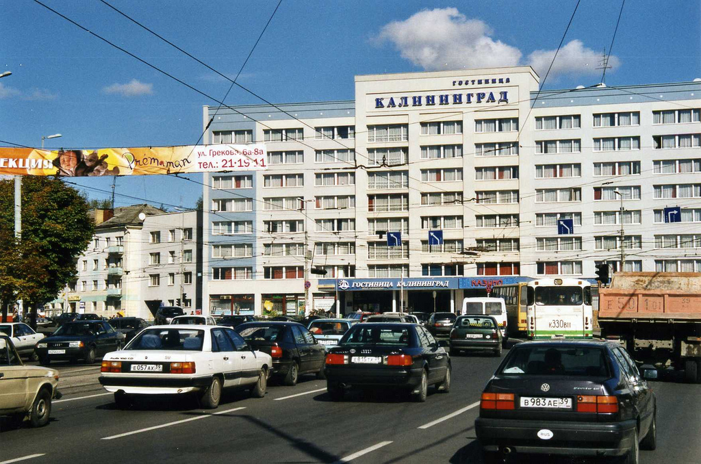 Hotel Kaliningrad, Kaliningrad, Russia